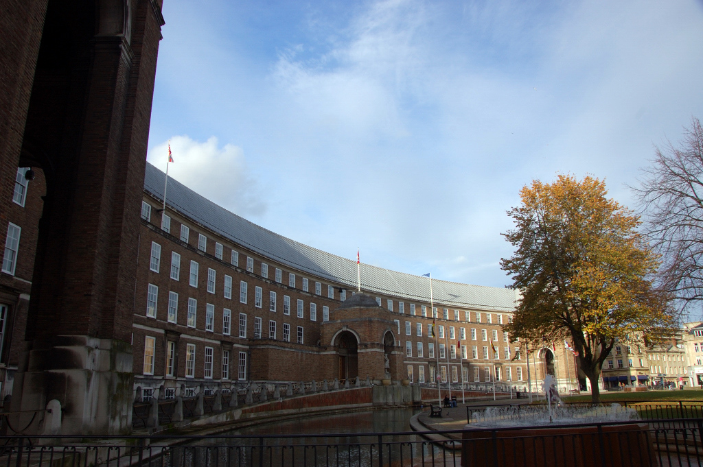 Council House, Bristol, England.